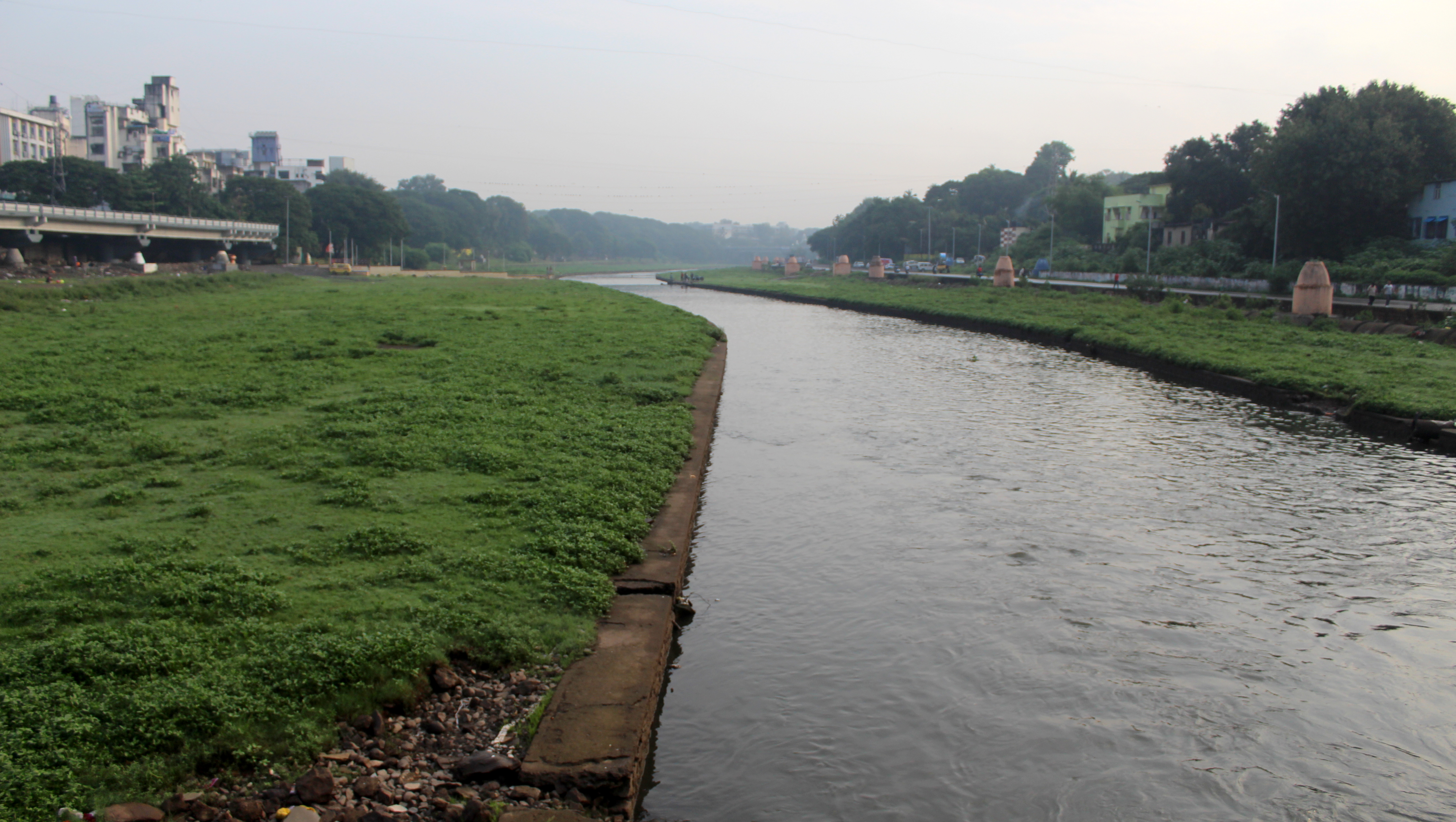 Mutha River, Pune